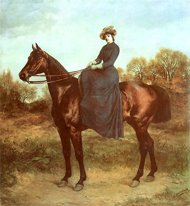 Jan Rosen: Horsewoman, signed bottom right side: "J. Rosen" (date not readable)